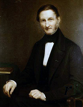 Willem Gerard van de Poll (Amsterdam, 1793 - The Hague, 1872)